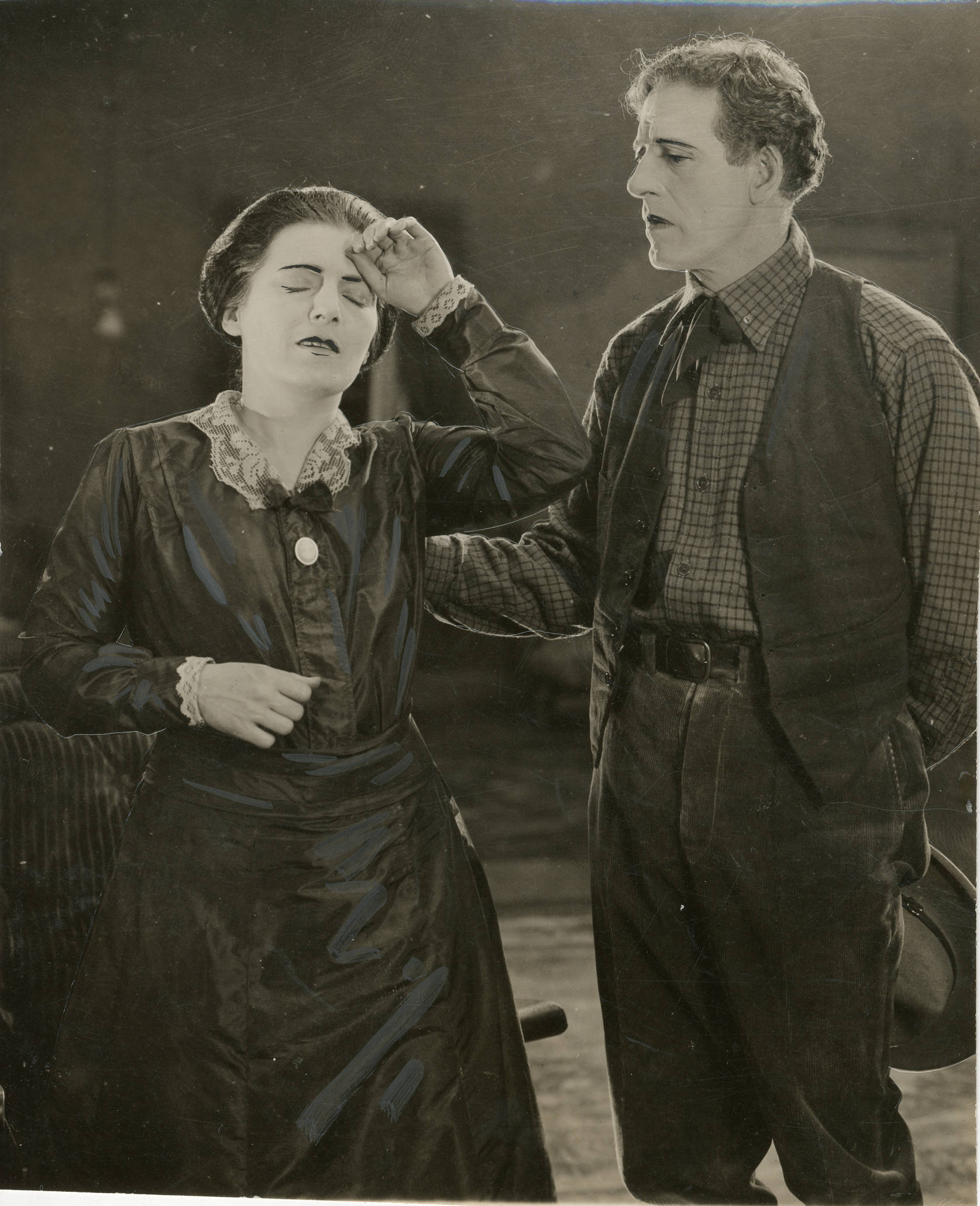 The Eagle's Feather Subjects: motion pictures, actors, actresses